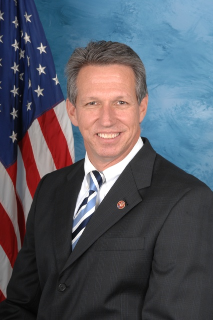 Official Congressional Photo of Tim Mahoney